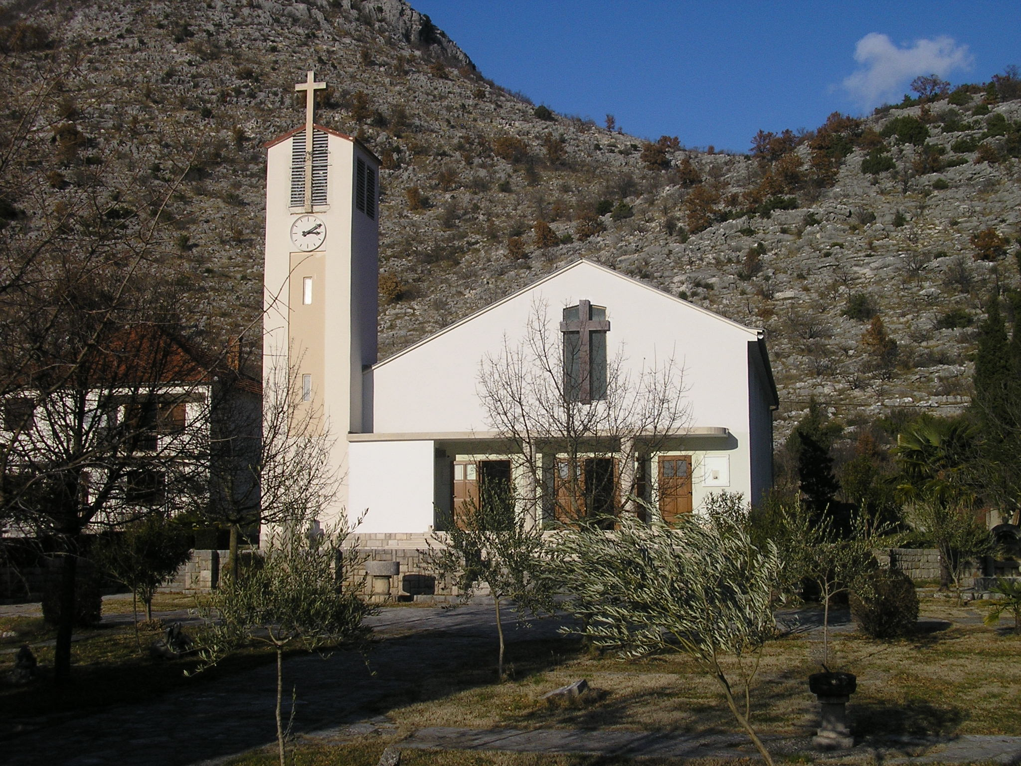 Christ the King's church